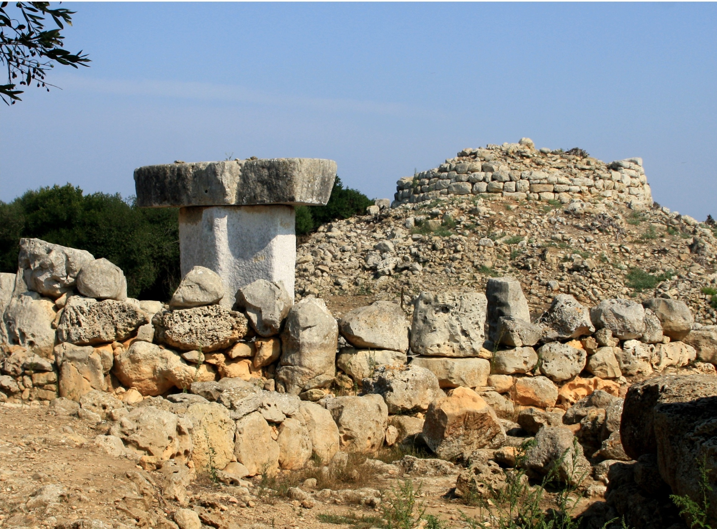 Taula and Talayot (Torralba d´en Salord, Minorca)